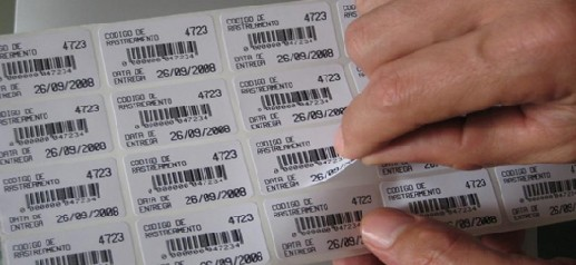 Labels with bar codes, numeric codes, date and description for tracing products. Originally created for the article Rastreabilidade.